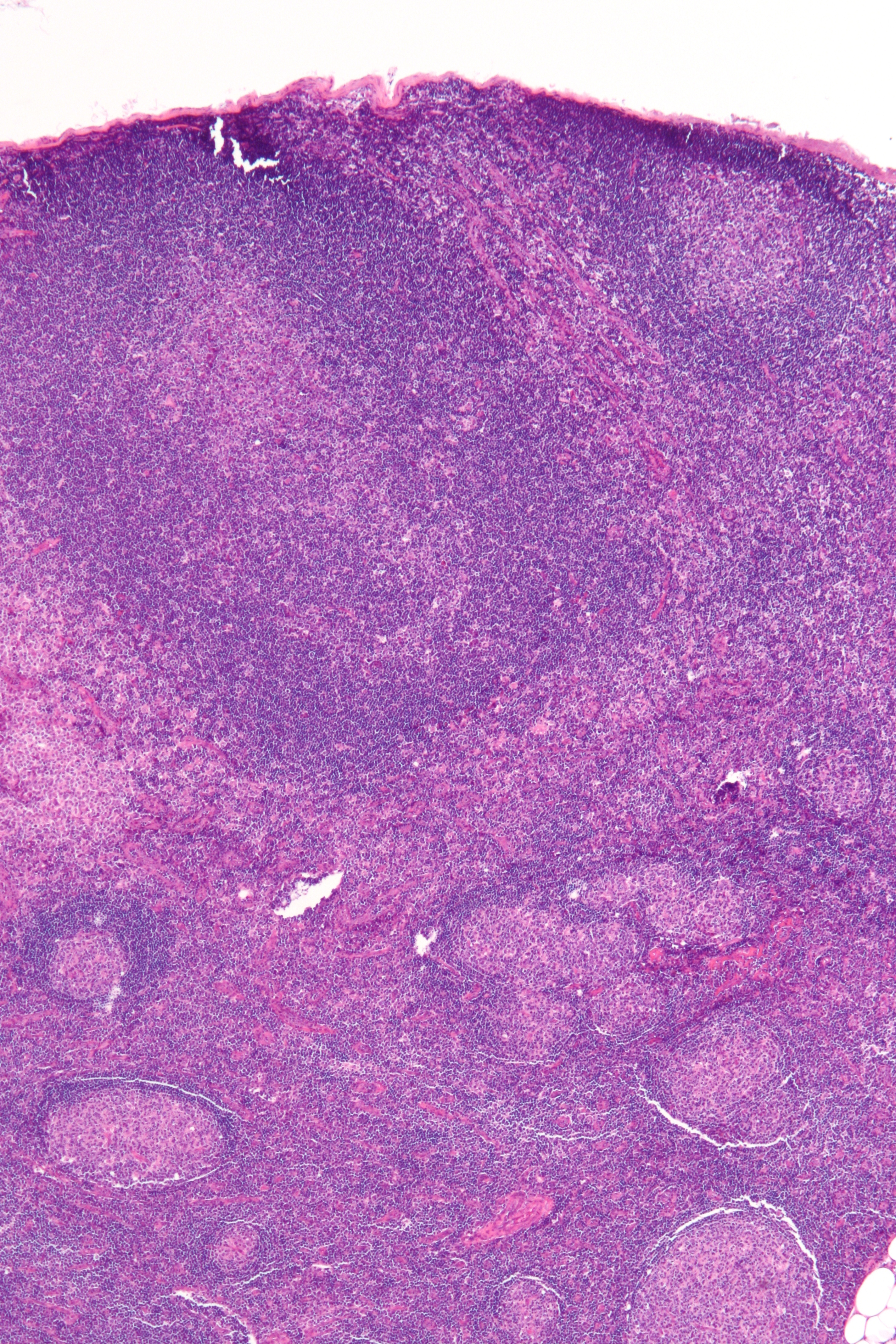 Low magnification micrograph of progressive transformation of germinal centres, abbreviated PTGCs and also progressive transformation of germinal centers, in an excisional lymph node biopsy. H&E stain. PTGCs is a reactive process of undetermined etiology, that is usually characterized clinically by localized lymphadenopathy and is typically asymptomatic. It may occasionally recur and in a small proportion of patients has been reported to subsequently develop Hodgkin lymphoma (usually nodular lymphocyte predominant Hodgkin lymphoma).[1][2] Features: Follicular hyperplasia (many follicles). Focally large germinal centers with: Poorly demarcated germinal center (GC)/mantle zone interfaces (as GCs infiltrated by mantle zone lymphocytes) -- key feature.[3] Expanded mantle zone. References ↑ Hansmann ML, Fellbaum C, Hui PK, Moubayed P (February 1990). "Progressive transformation of germinal centers with and without association to Hodgkin's disease". Am. J. Clin. Pathol. 93 (2): 219–26. PMID 2405631. ↑ Kojima M, Nakamura S, Motoori T, et al. (April 2003). "Progressive transformation of germinal centers: a clinicopathological study of 42 Japanese patients". Int. J. Surg. Pathol. 11 (2): 101–7. PMID 12754626. ↑ Verma A, Stock W, Norohna S, Shah R, Bradlow B, Platanias LC (2002). "Progressive transformation of germinal centers. Report of 2 cases and review of the literature". Acta Haematol. 108 (1): 33–8. PMID 12145465. Related-images Very low mag. Intermed. mag. Very low mag. Low mag. Intermed. mag.